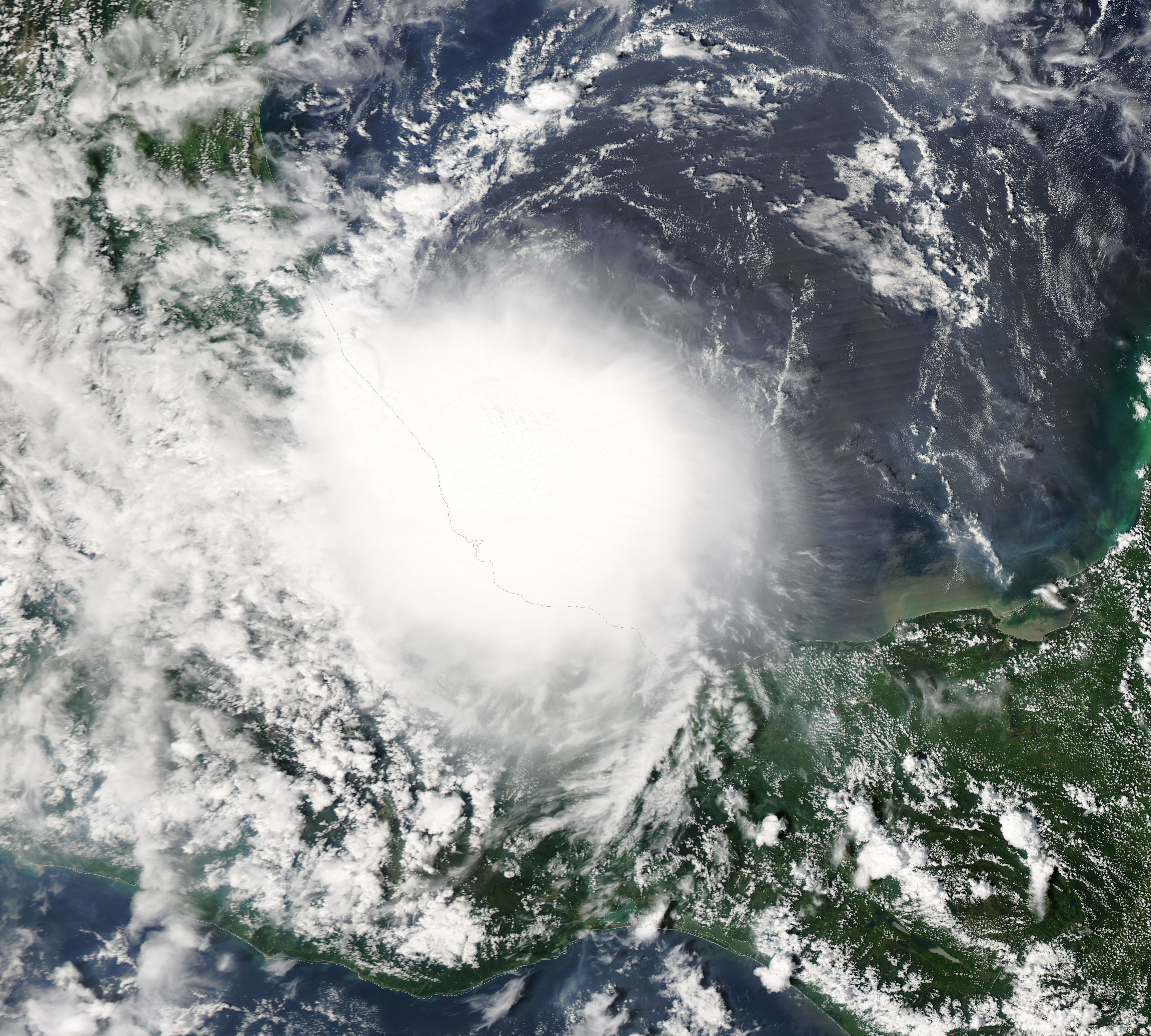 Hurricane Lorenzo at approximately 1920 UTC, as seen by the MODIS instrument aboard NASA's Aqua satellite.